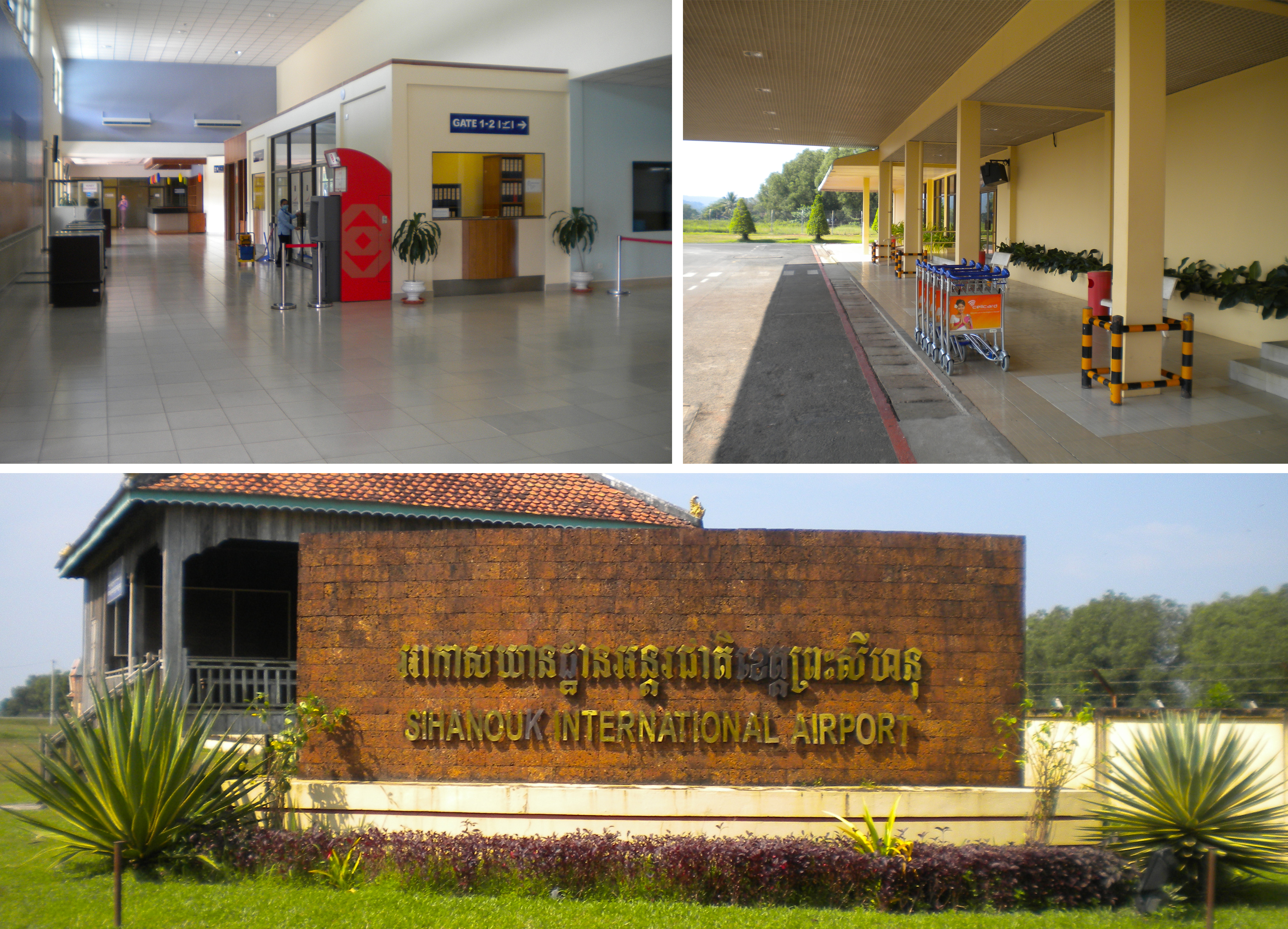 montage of Sihanoukville airport images, October 2014